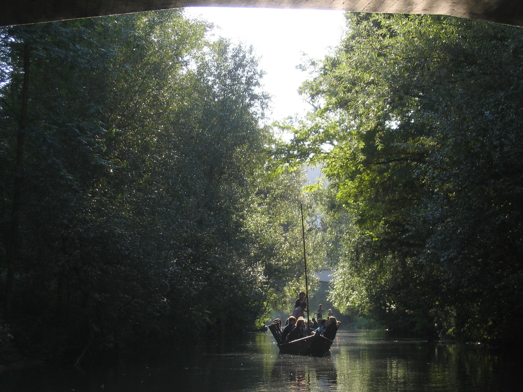 This is a Stocherkahn (poled boat) on the Neckar River in Tübingen, Germany.